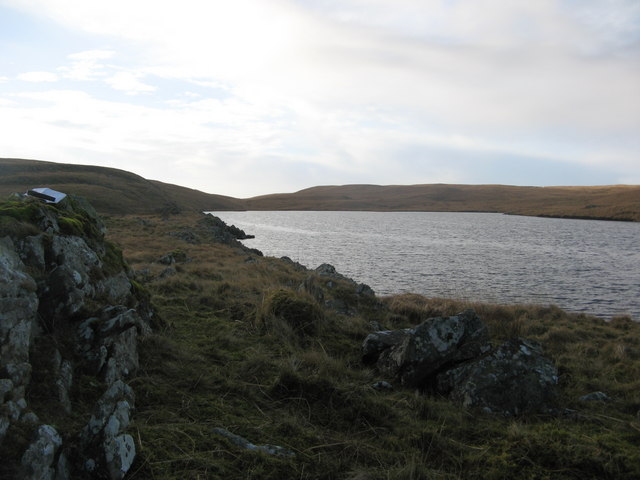 Llyn Cerrigllwydion Isaf Llyn Cerrigllwydion Isaf lake taken from the NE end.